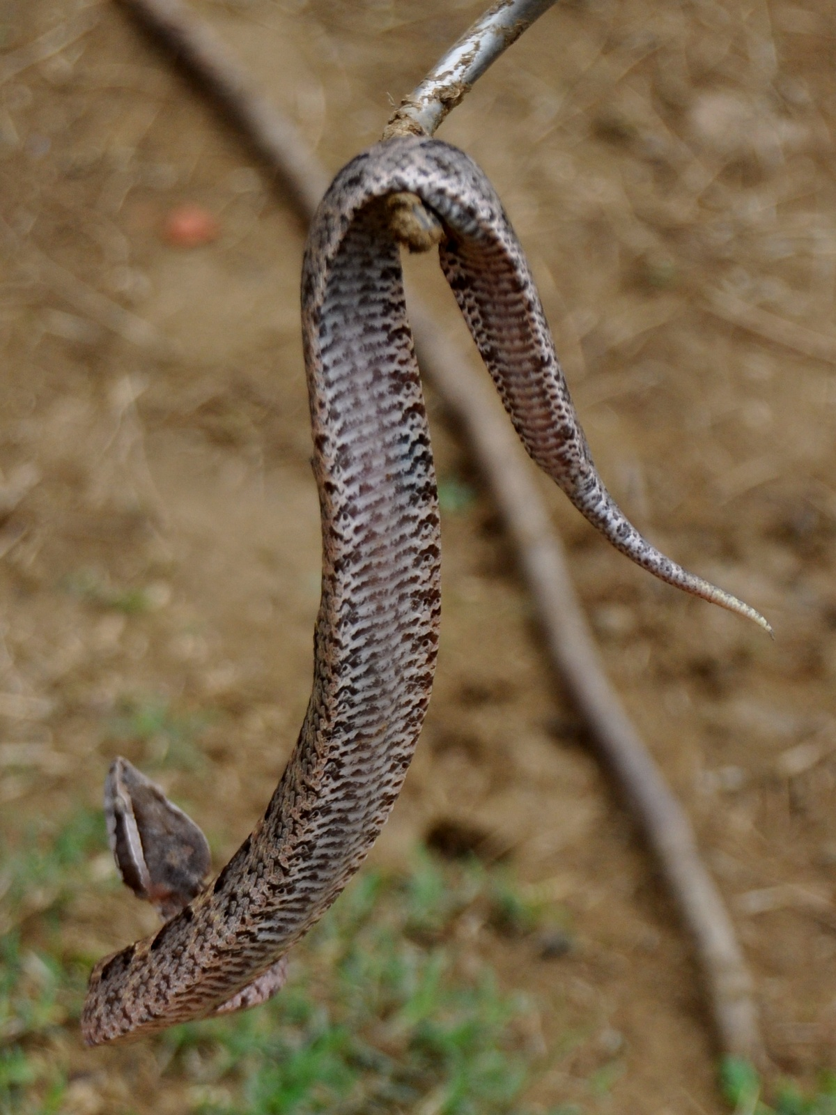 Young Malayan Pit Viper (Calloselasma rhodostoma); from Karawang, West Java. Ventral side.